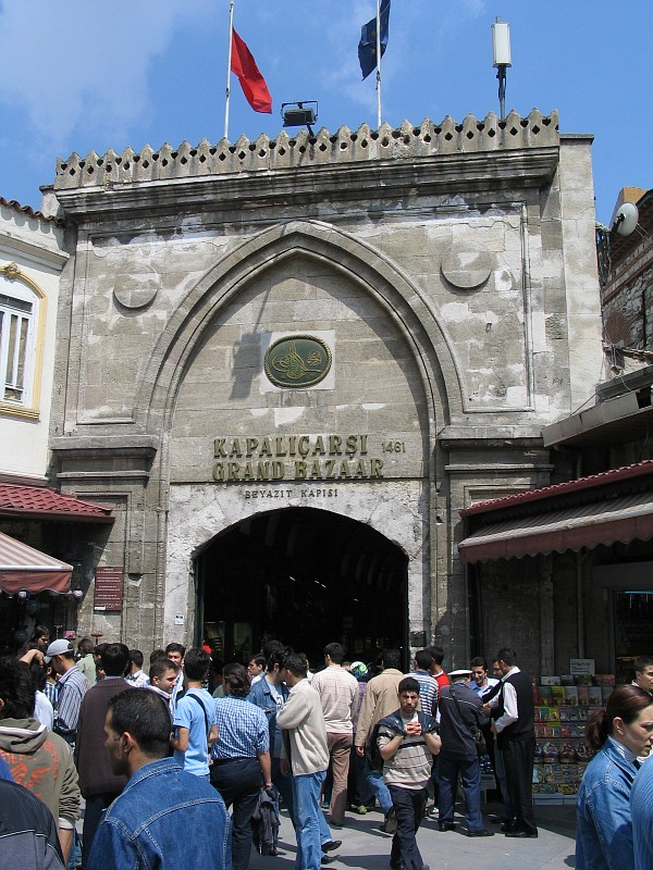 Grand Bazaar or Kapalicarsi, Istanbul. Photographer: Osvaldo Gago